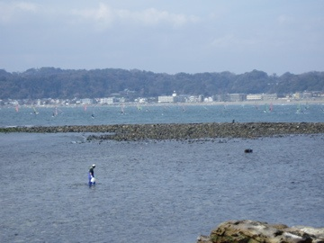 The picture was taken by me in January 2005